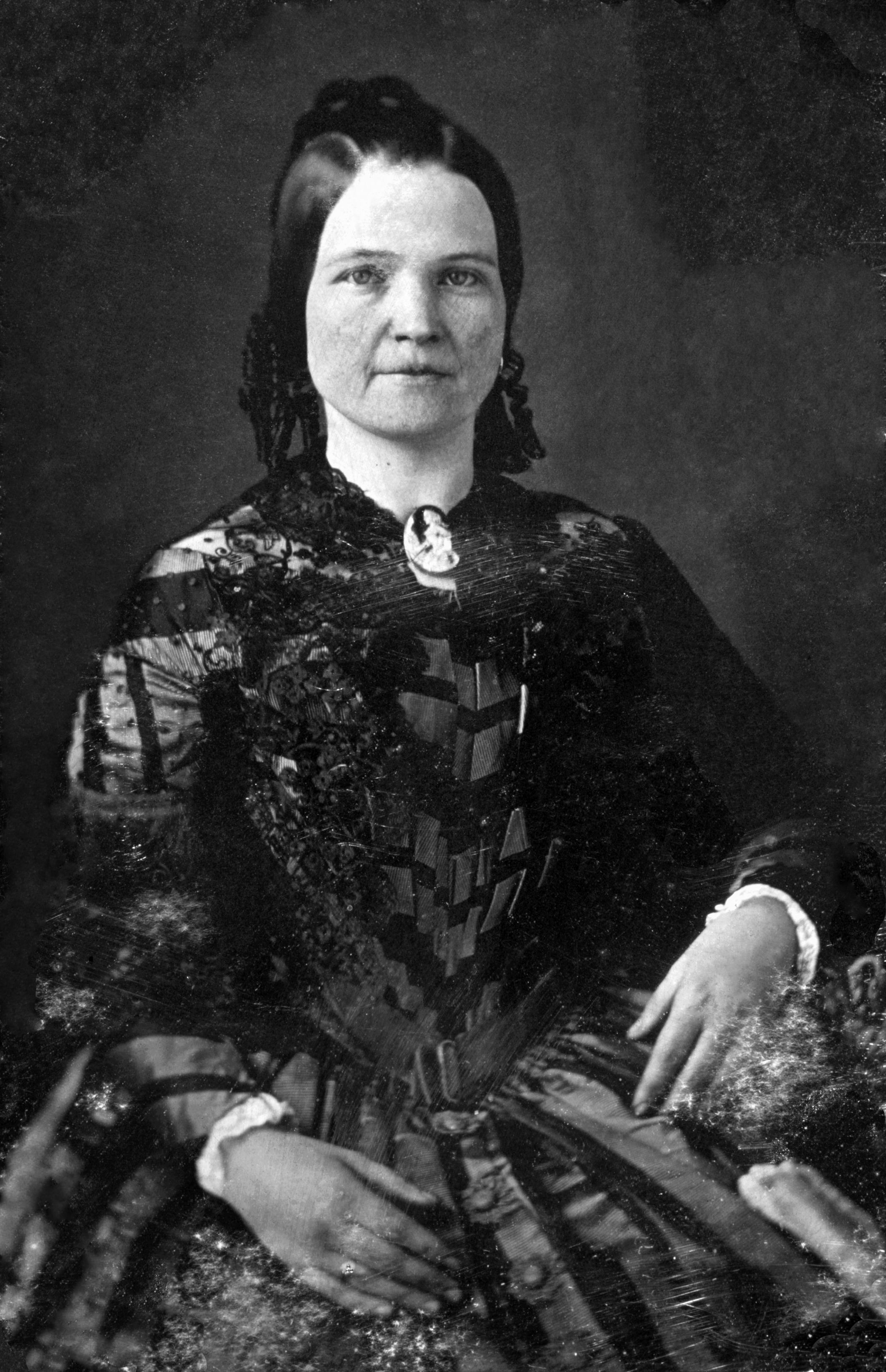 Mary Todd Lincoln, wife of Abraham Lincoln. Three-quarter length portrait, seated, facing front